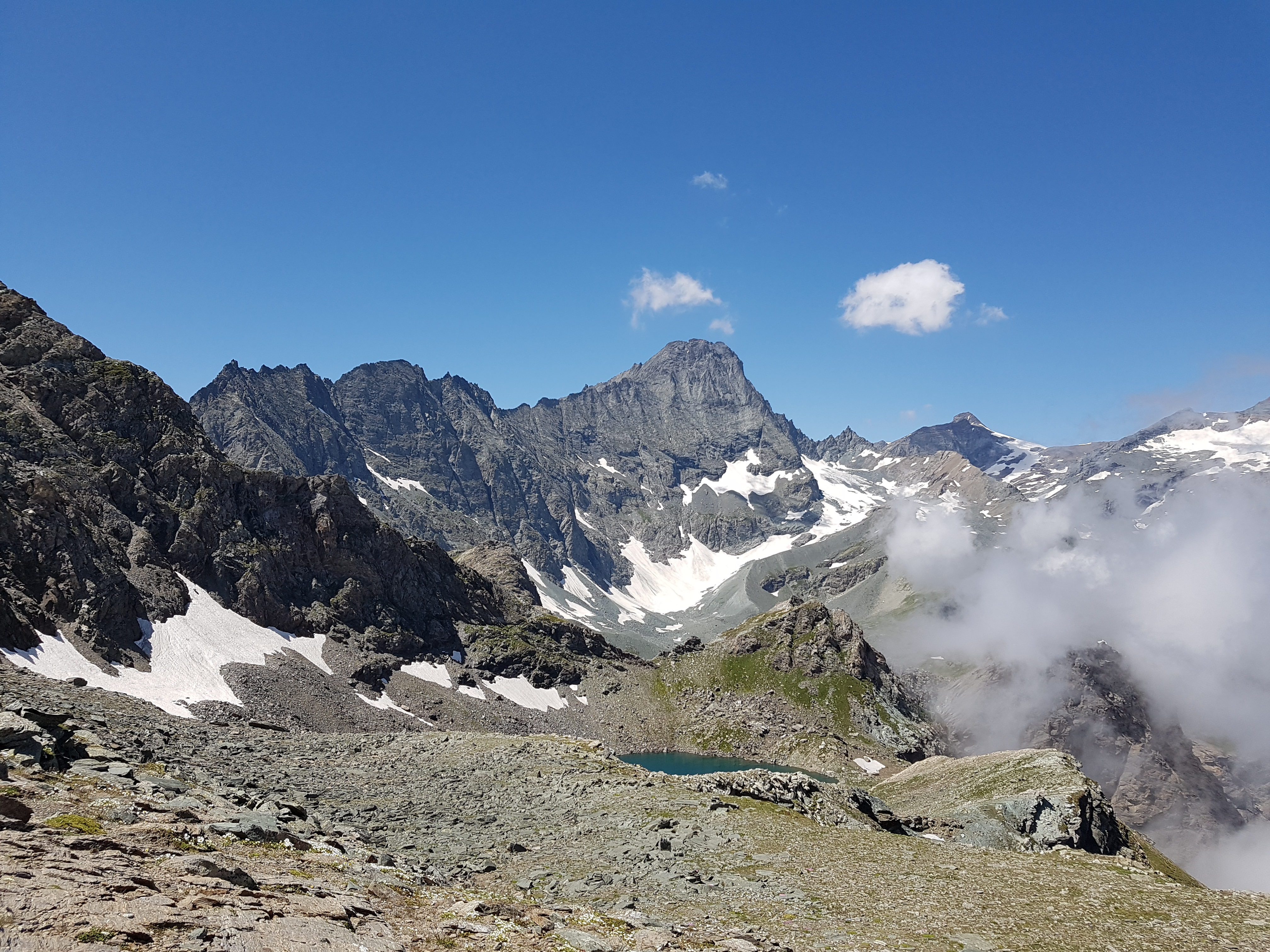 Uja Bessanese and glacial lake